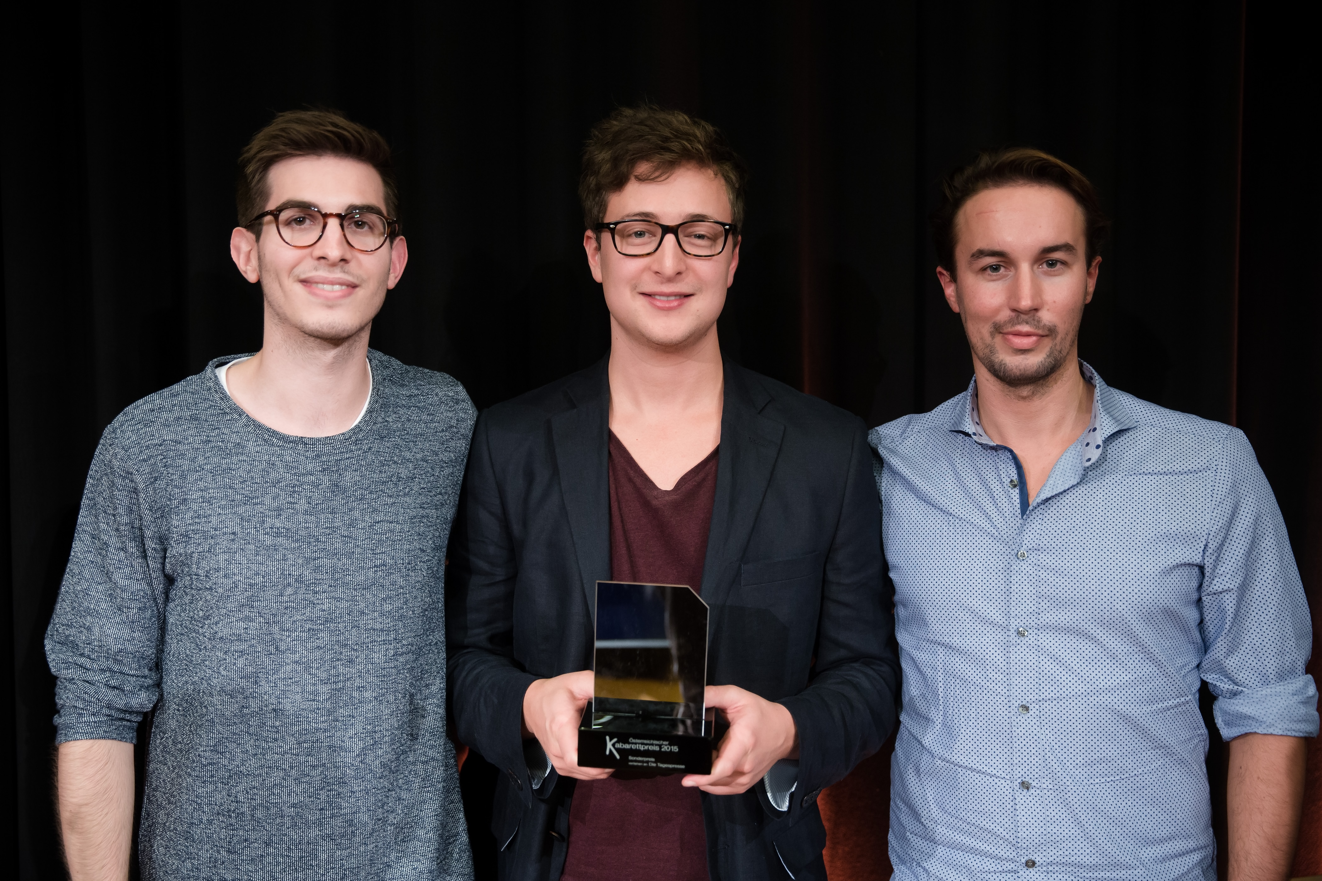 The team of Die Tagespresse - Fritz Jergitsch, Sebastian Huber and Jürgen Marshal - at the Austrian Cabaret Award 2015 at Urania in Vienna, Austria.